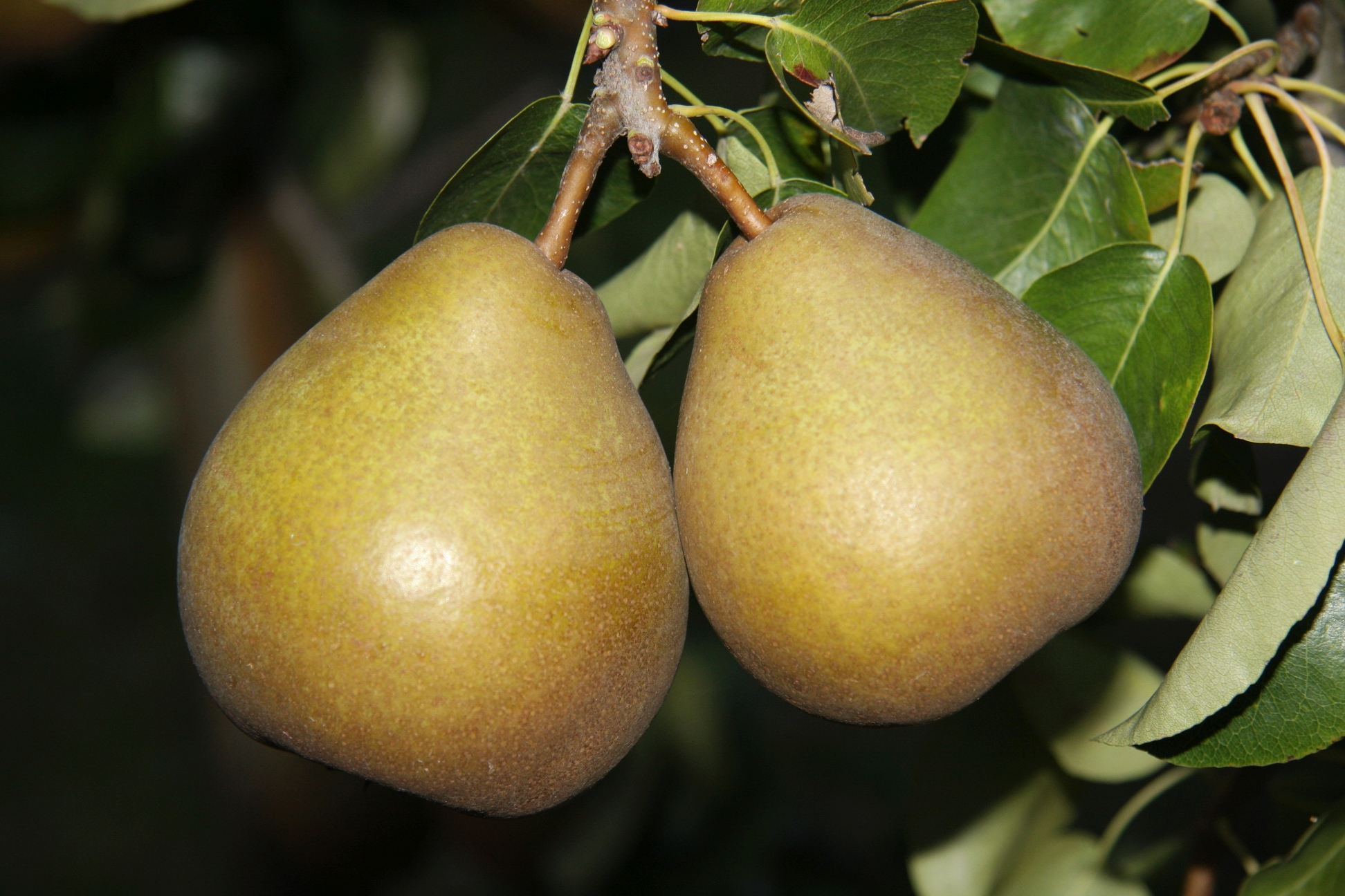 Beurré Hardy fruits